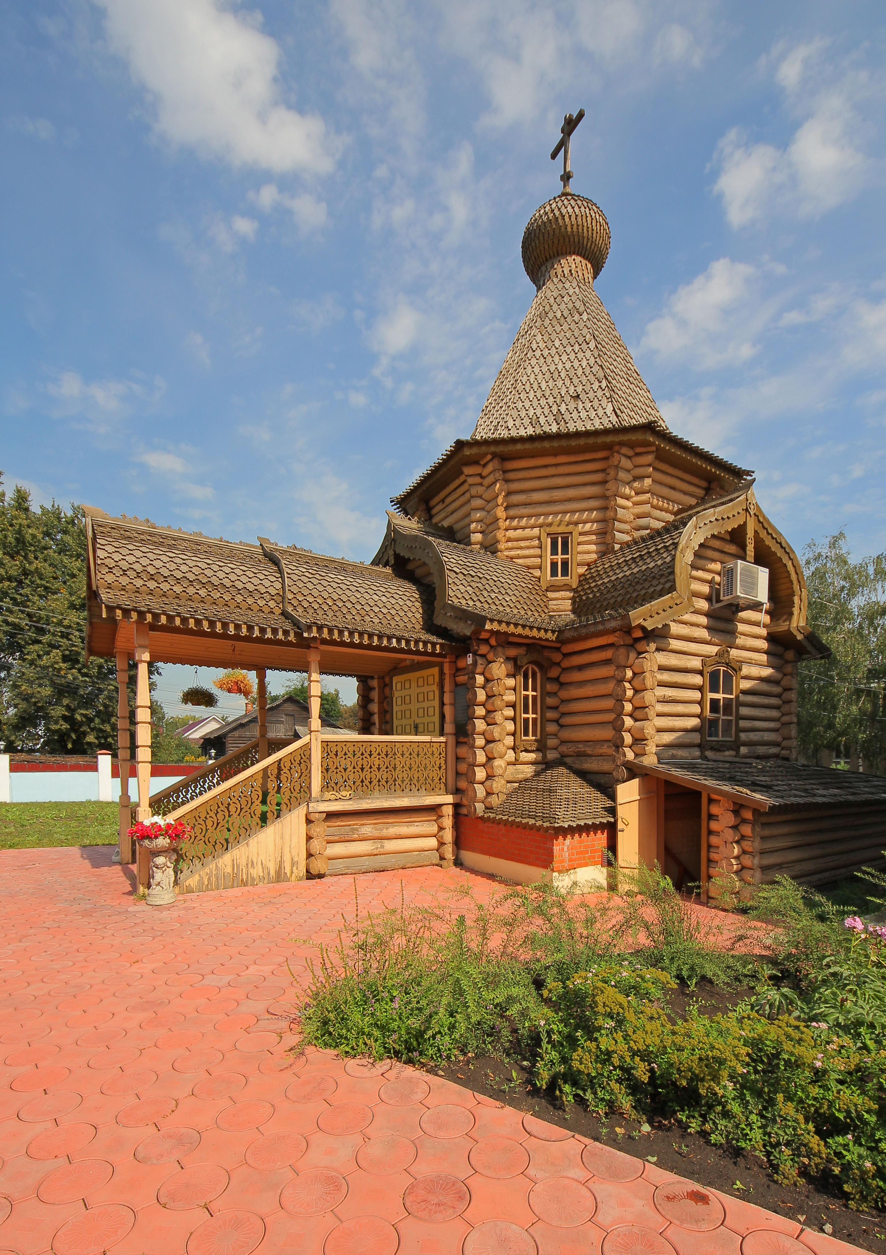 St. Nicholas Chapel in Vidnoye, Moscow Oblast, Russia. This chapel is part of the complex of the Nativity Church in Tarychevo.